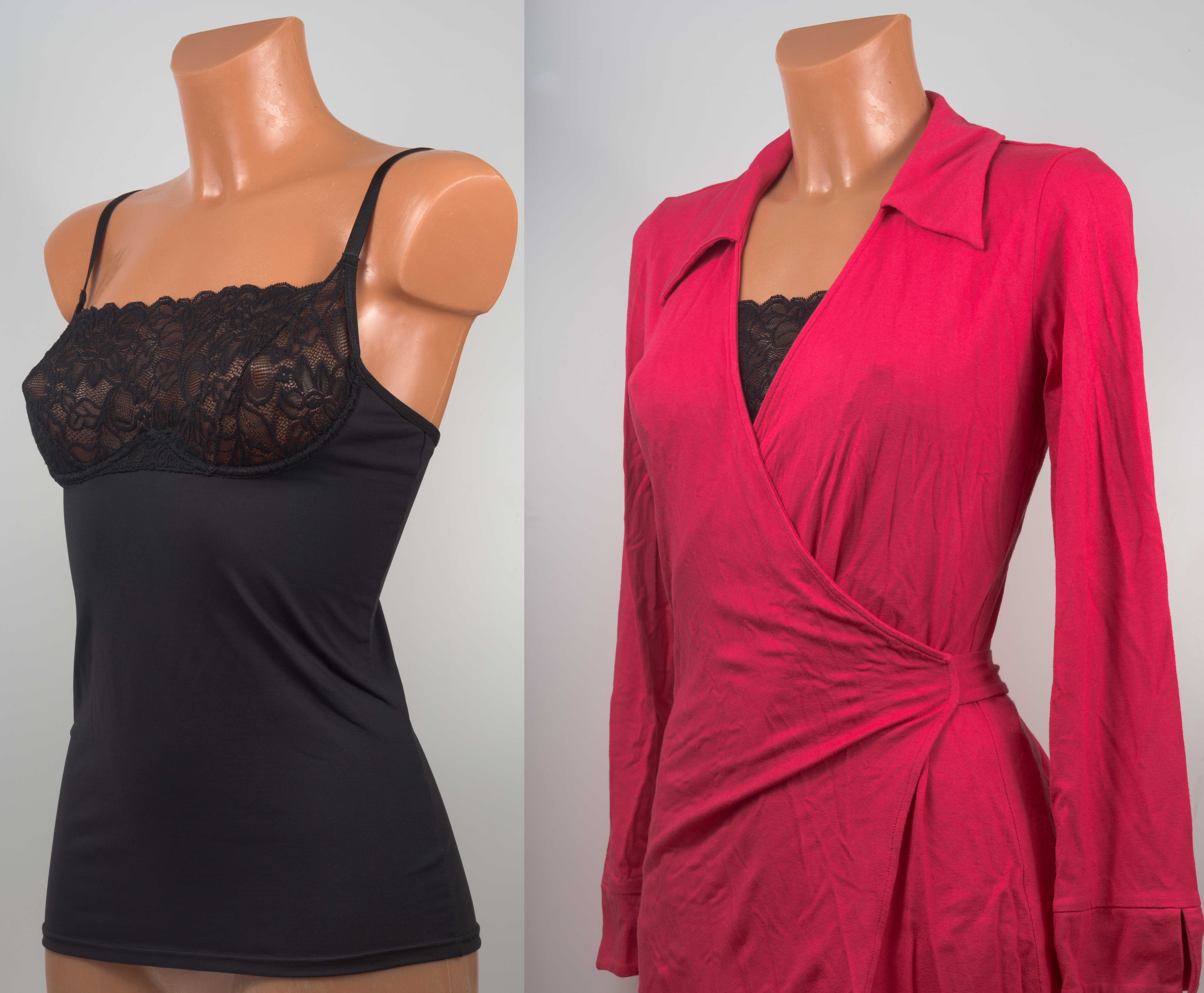 Bra shirt and same with wrap dress. Part of the bra is intended to be displayed in public. Although the wrap dress is advertised to be wrinkle free, they are still very noticeable.